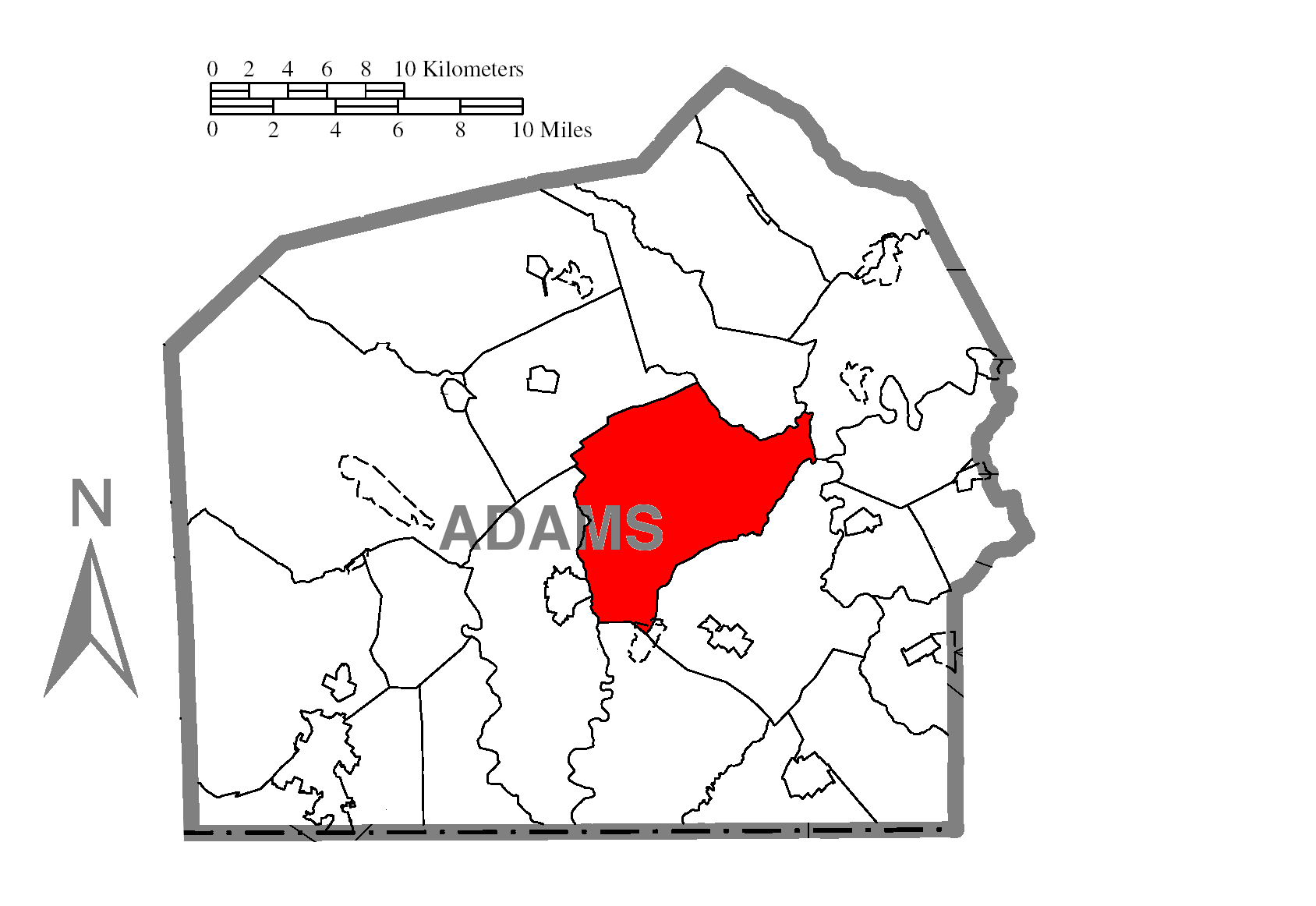 A map of Adams County showing Straban Township, Pennsylvania (alternate) highlighted on the map.